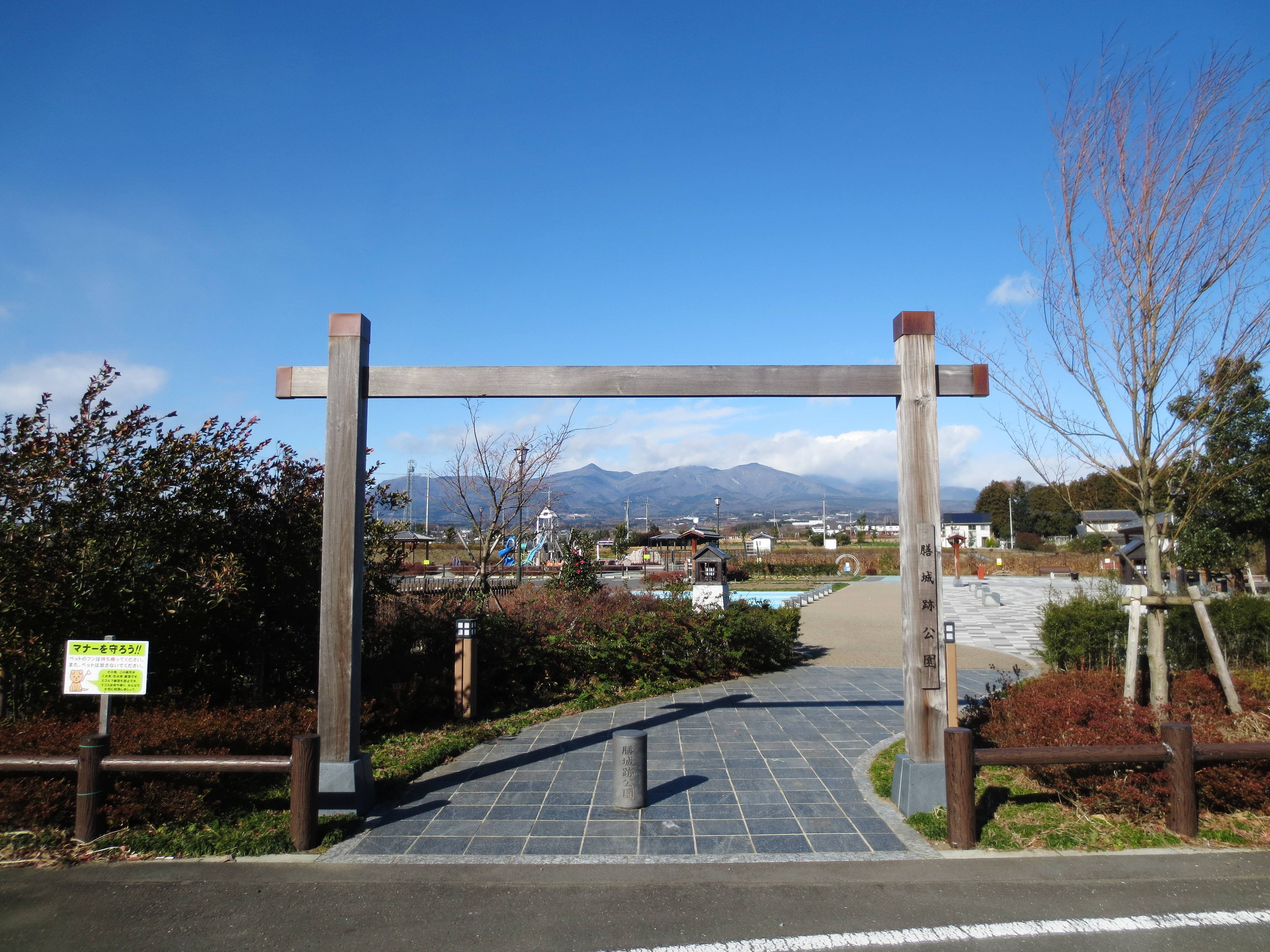 Zen Castle park.